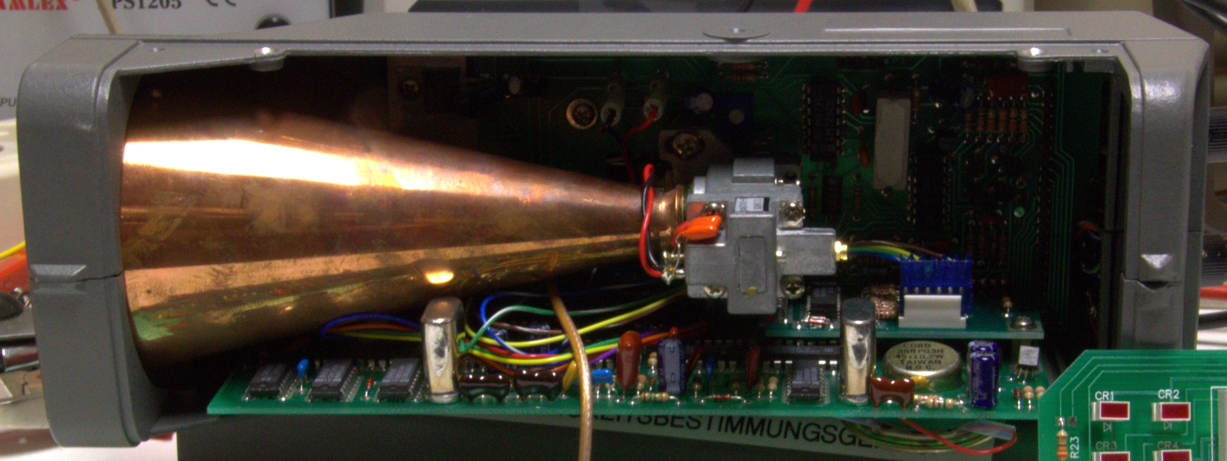 Inside a disassembled radar speed gun, used by police to measure the speed of cars. The copper-colored cone is the horn antenna which emits the beam of microwaves. The small grey unit mounted at its apex is a 24GHz Gunn diode oscillator which generates the microwaves. The GaAs Gunn diode is mounted inside a resonant waveguide cavity diecast from Mazak zinc aluminium alloy.